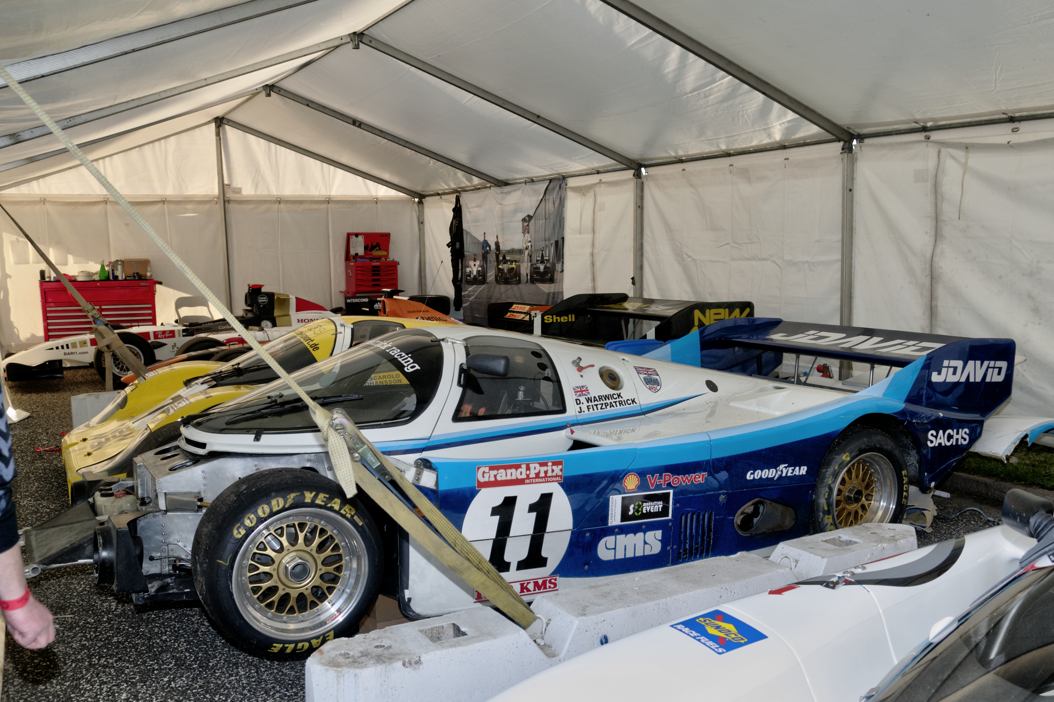 1983 Porsche 956 in the paddocks of the CRAA 2014 Classic Race in Aarhus, Denmark. Driver for this event was Søren Dybholm, participating in the show-class "Le Mans & Prototypes" There were two Porsche 956 entered for CRAA 2014. Unfortunately they both stayed in the paddocks for most of the show races, which was a huge disappointment for many fans. To make matters even worse, they were mostly - unlike the majority of other cars - hidden behind rolled down "curtains", like on this photo, where you could only get a "sneak peak" from the side. The lack of participation from these two cars (the other one is hiding in the background here), was perhaps the biggest letdown of the whole event. Originally driven by John Fitzpatrick and Derek Warwick for the John Fitzpatrick Racing team in the 1983 World Endurance Championship season (C1 class). The team was the first privateers to enter Porsche 956s and their tweaks worked so well that they managed to beat the factory entries at the Grand Prix International 1000 km at Brands Hatch and take the overall win. They also raced at Le Mans, this time Fitzpatrick partnered with David Hobbs and Dieter Quester in the number 11, but retired after 135 laps, so teamowner Fitzpatrick switched to the sister car, number 16 and secured an overall 5th place.